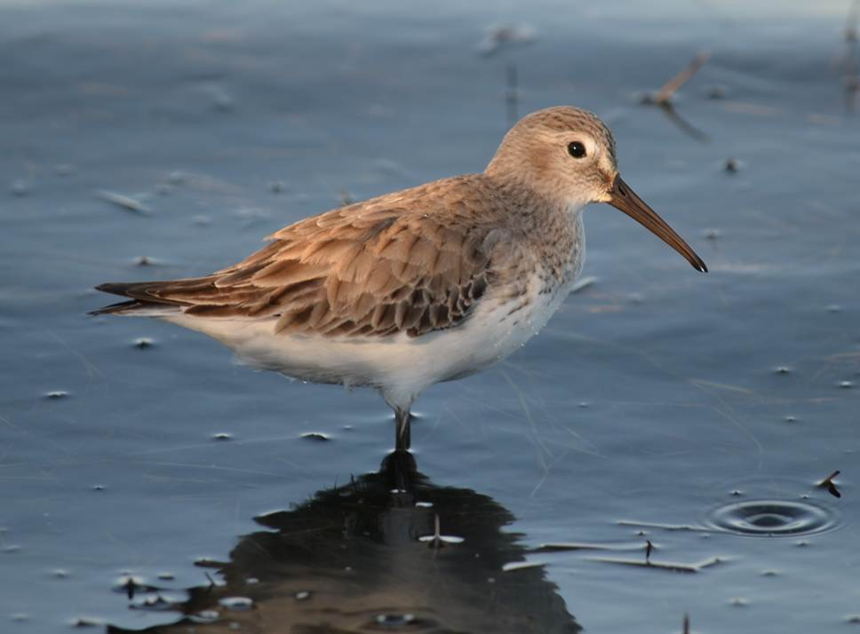 Calidris alpina (Dunlin) in winter plumage. Photo: Santa Pola (Alicante), Spain. 12-1-2013